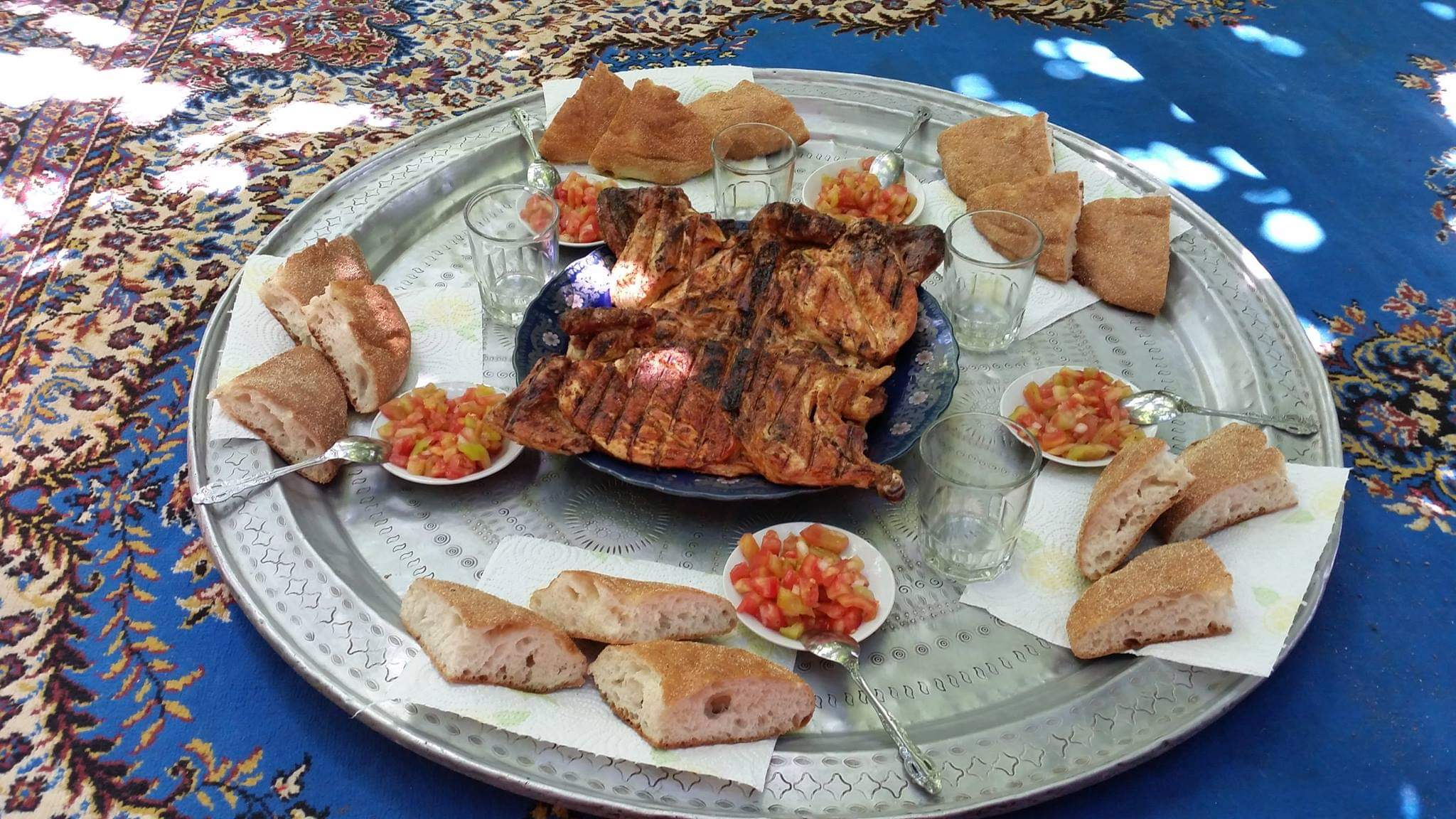 This is an image with the theme "Africa on the Move or Transport" from: Morocco